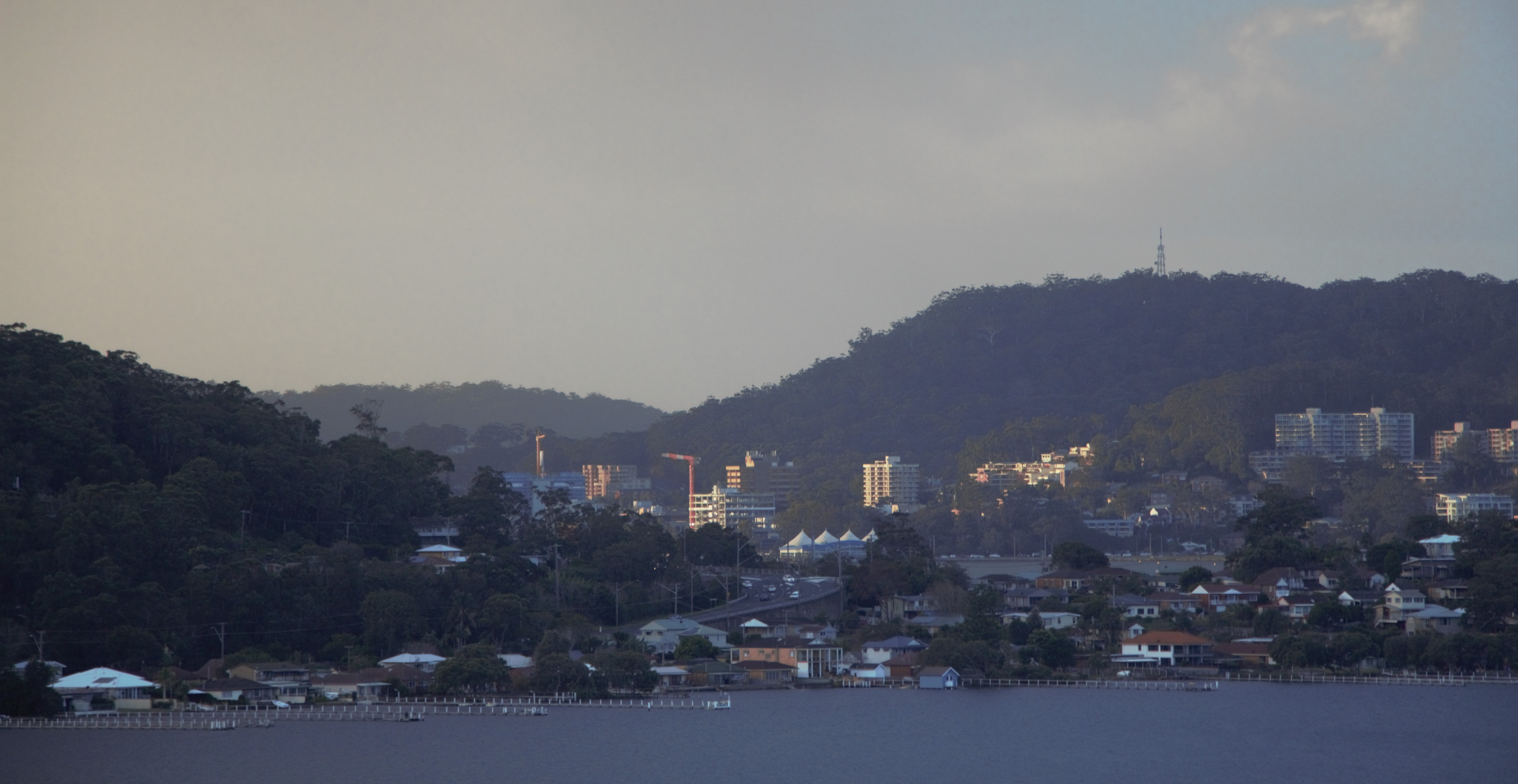 Gosford, New South Wales skyline. Point Clare is in the foreground. The forested hill in the background is Rumbalara Reserve.